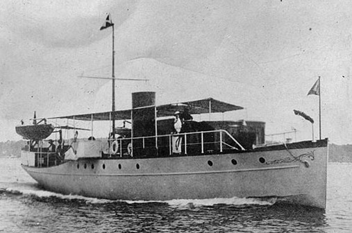 Edithena (American Motor Boat, 1914) Underway prior to World War I. This craft was USS Edithena (SP-624) in 1917-1919.